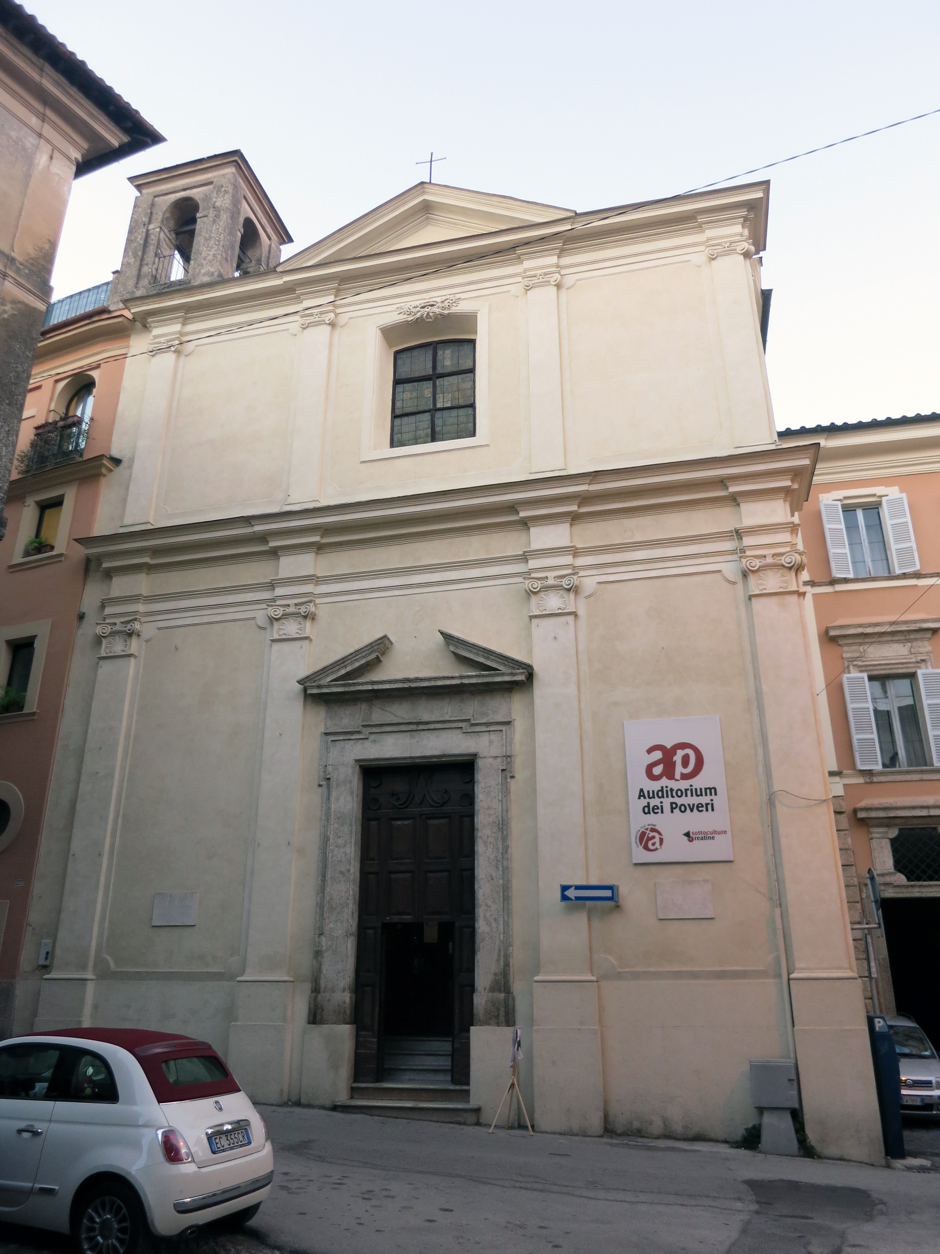 San Giovenale and San Vincenzo Ferreri church, also known as Santa Maria della Scala - Rieti, Lazio, Italy